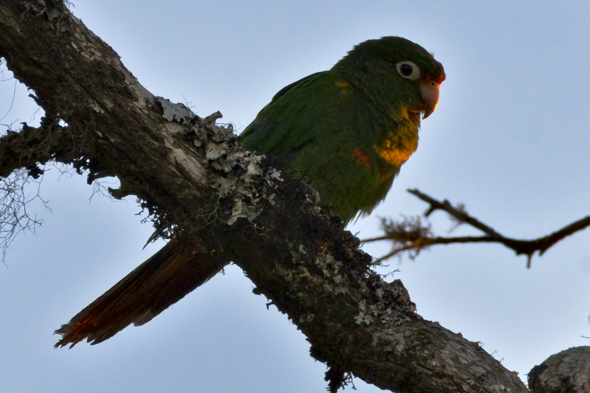 Santa Marta Parakeet perched at El Dorado Natural Reserve Cuchilla San Lorenzo